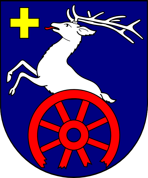 Coat of arms (shield only) of Támás cardinal Bakócz, archbishop of Esztergom (1497 - 1521), based on drawing in Siebmacher